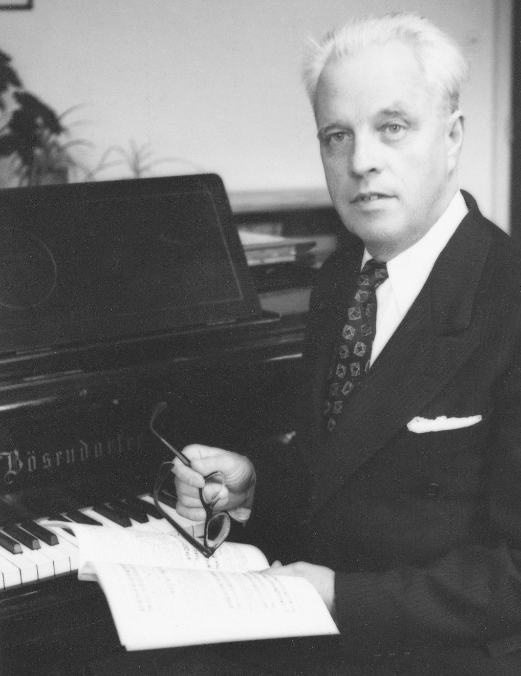 Composer Konrad Stekl (1901–1979)